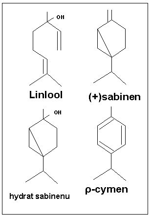 Marjorama oil components